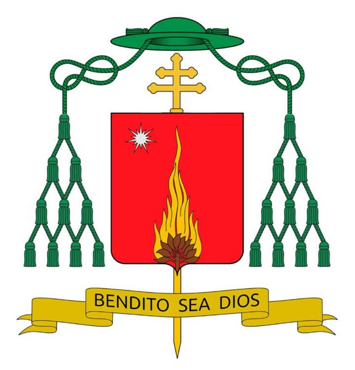 Coat of arms of the argentine bishop Sergio Alfredo Fenoy, archbishop of Santa Fe de la Vera Cruz.